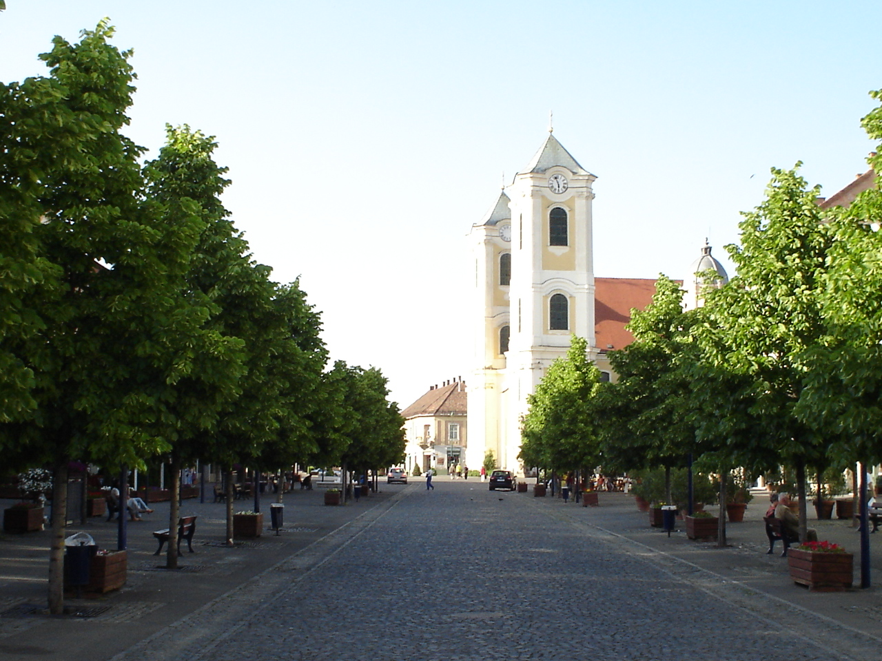 Main Square of Gyöngyös, Hungary